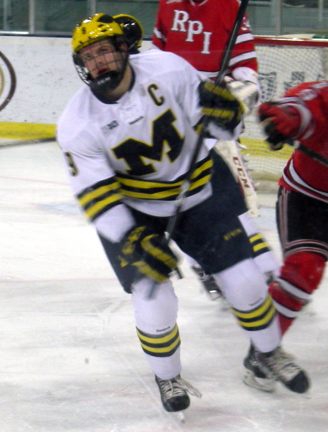 In-game action during the RPI Engineers vs. Michigan Wolverines men's ice hockey game at Yost Ice Arena in Ann Arbor, Michigan (United States). Michigan won 3–2.